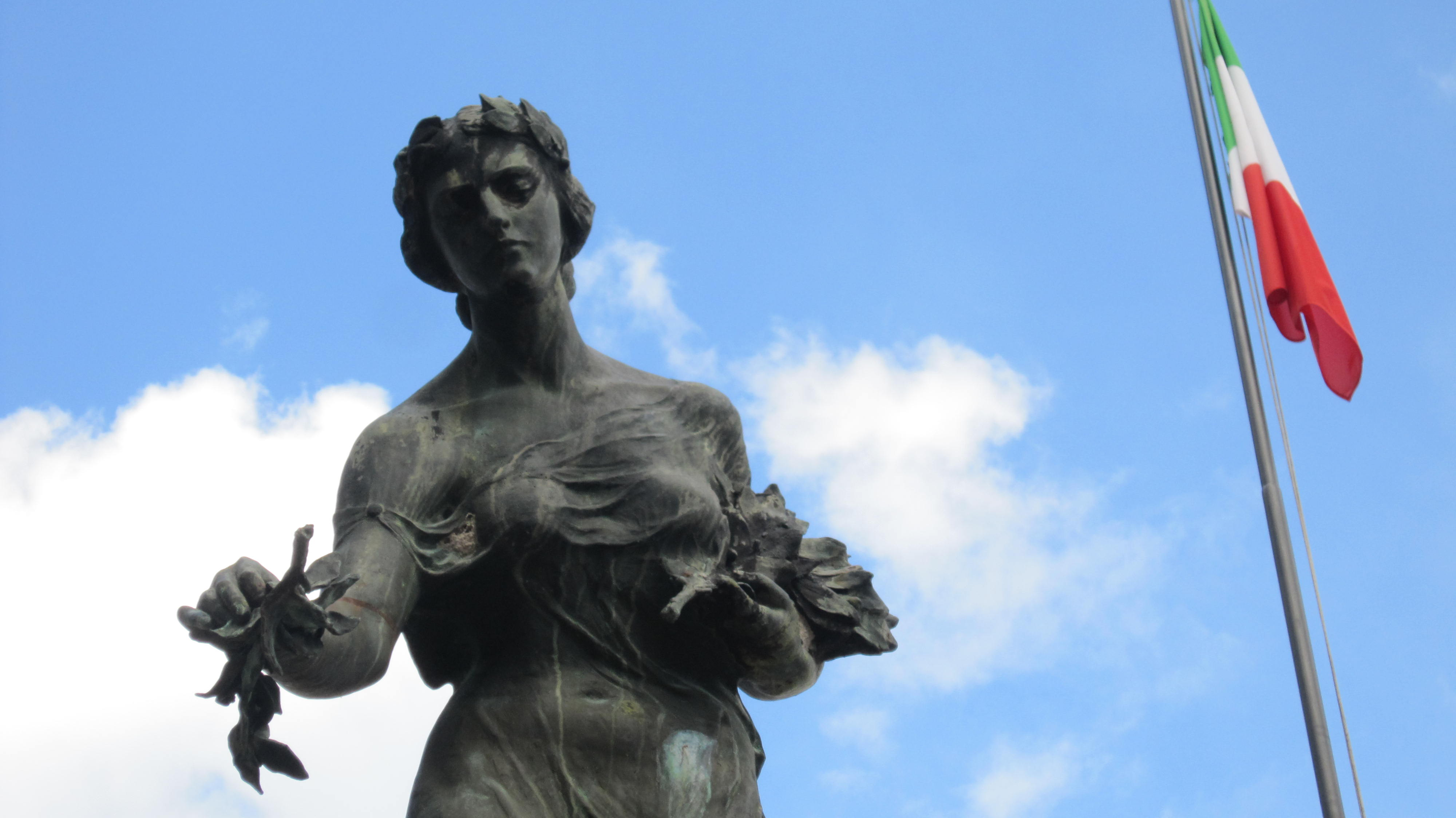 la gloria